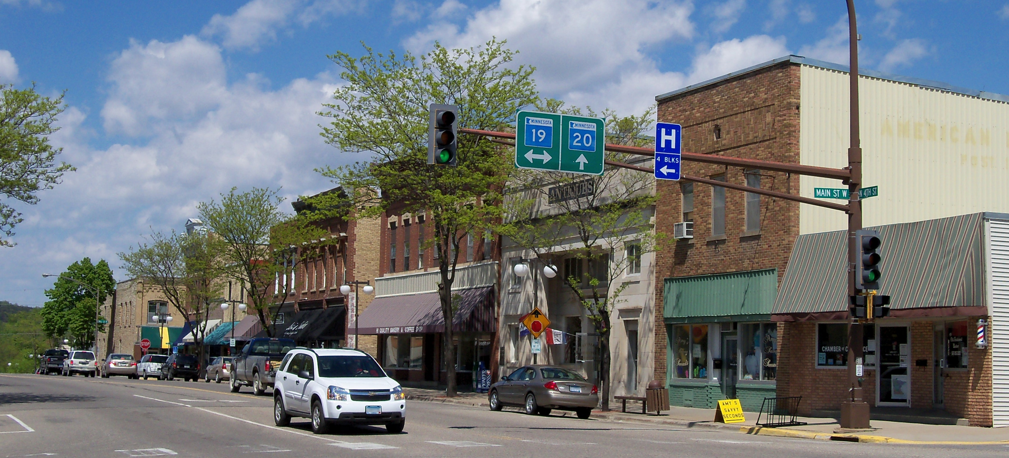 Street in downtown Cannon Falls, Minnesota, USA.